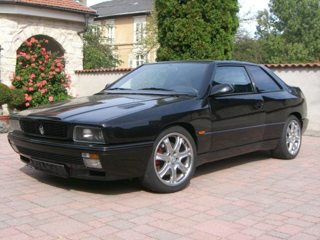 1996 Maserati Ghibli 2.0 V6, pictured in Germany